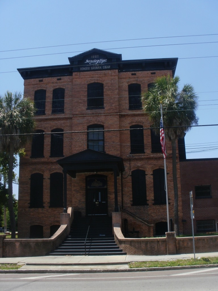 Villazon & Co